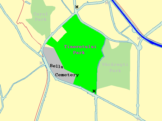 Schematic of the Tineretului Park area in Bucharest, including the subway stations nearby